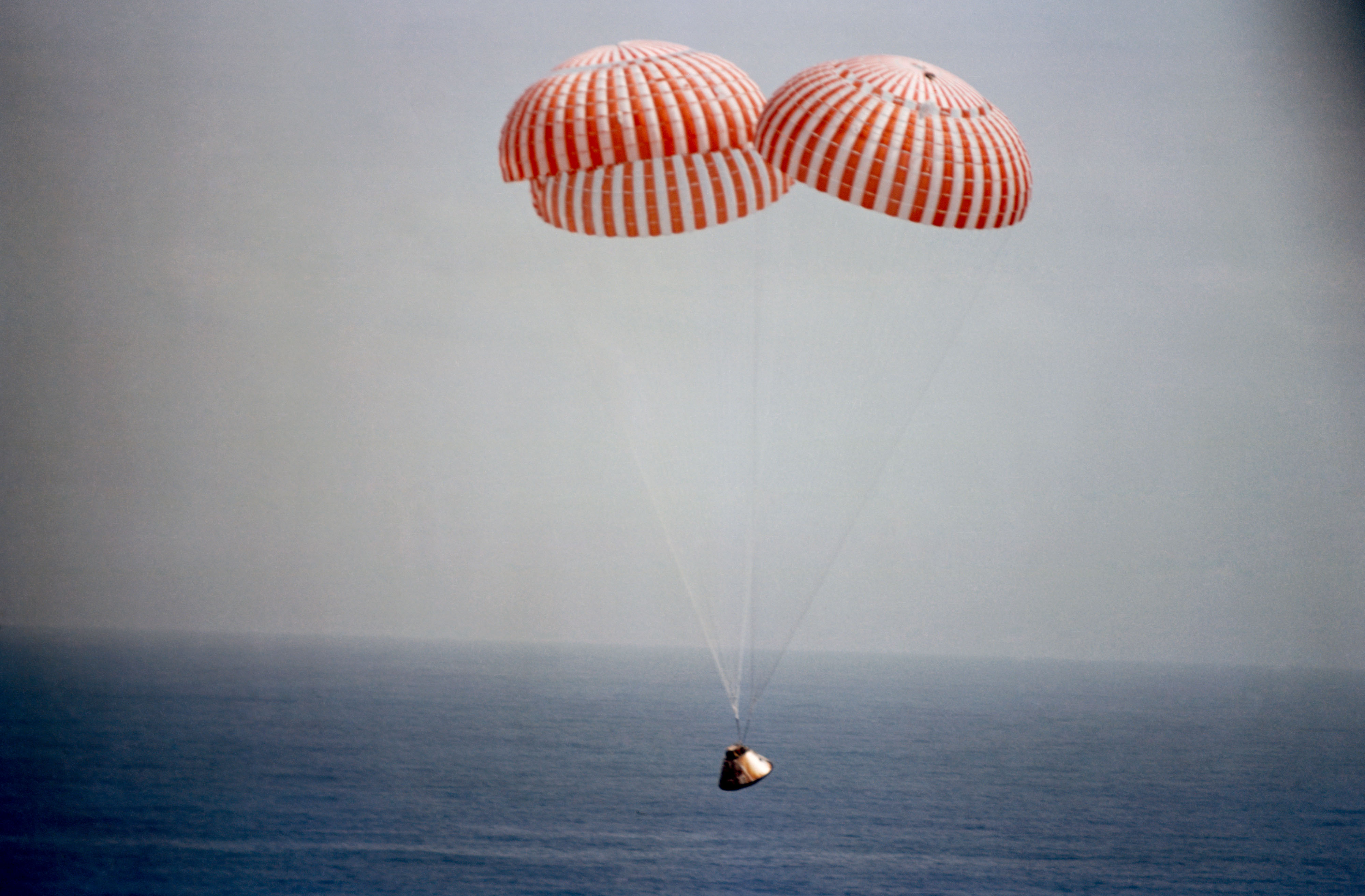 The Apollo 9 spacecraft, with astronauts James A. McDivitt, David R. Scott, and Russell L. Schweickart aboard, approaches touchdown in the Atlantic recovery area to conclude a successful 10-day Earth-orbital space mission. Splashdown occurred at 12:00:53 p.m. (EST), March 13, 1969, only 4.5 nautical miles from the prime recovery ship, USS Guadalcanal.